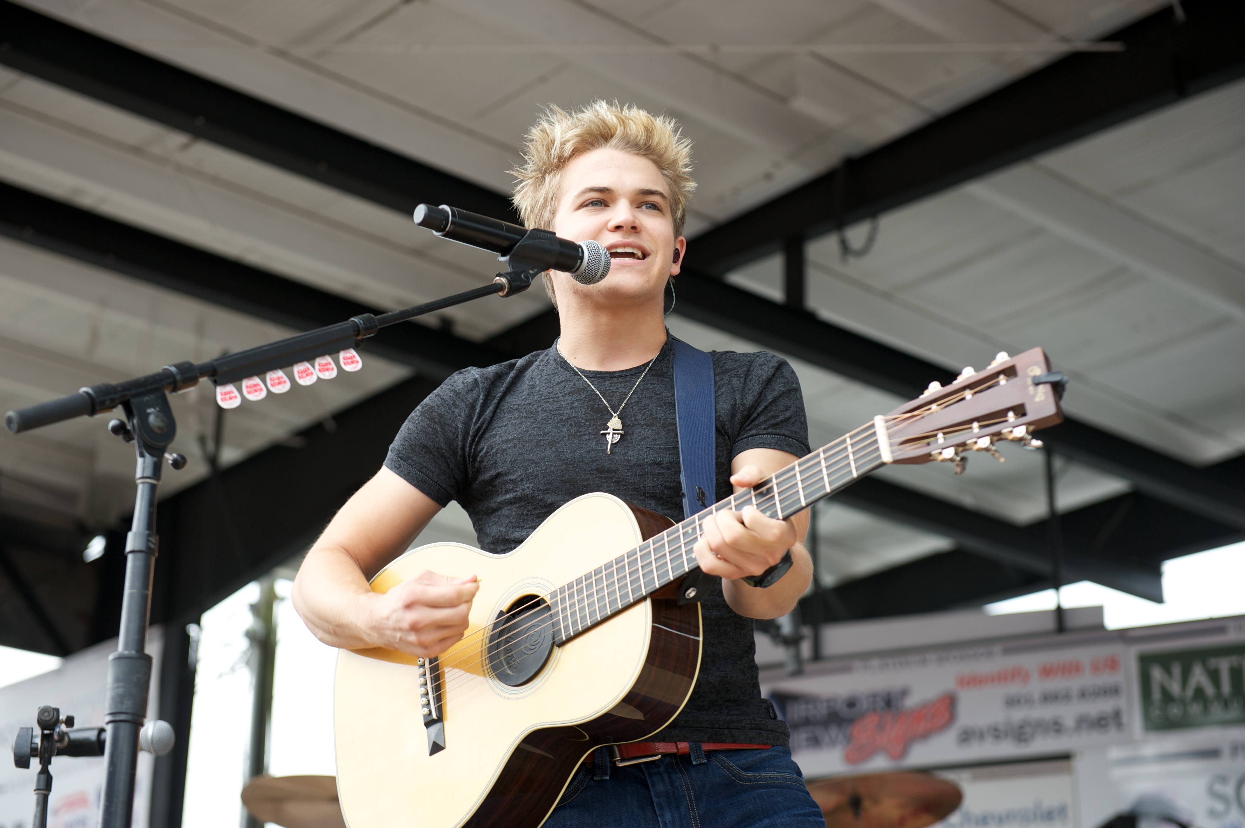 Hayes performing in Frederick Maryland in 2012